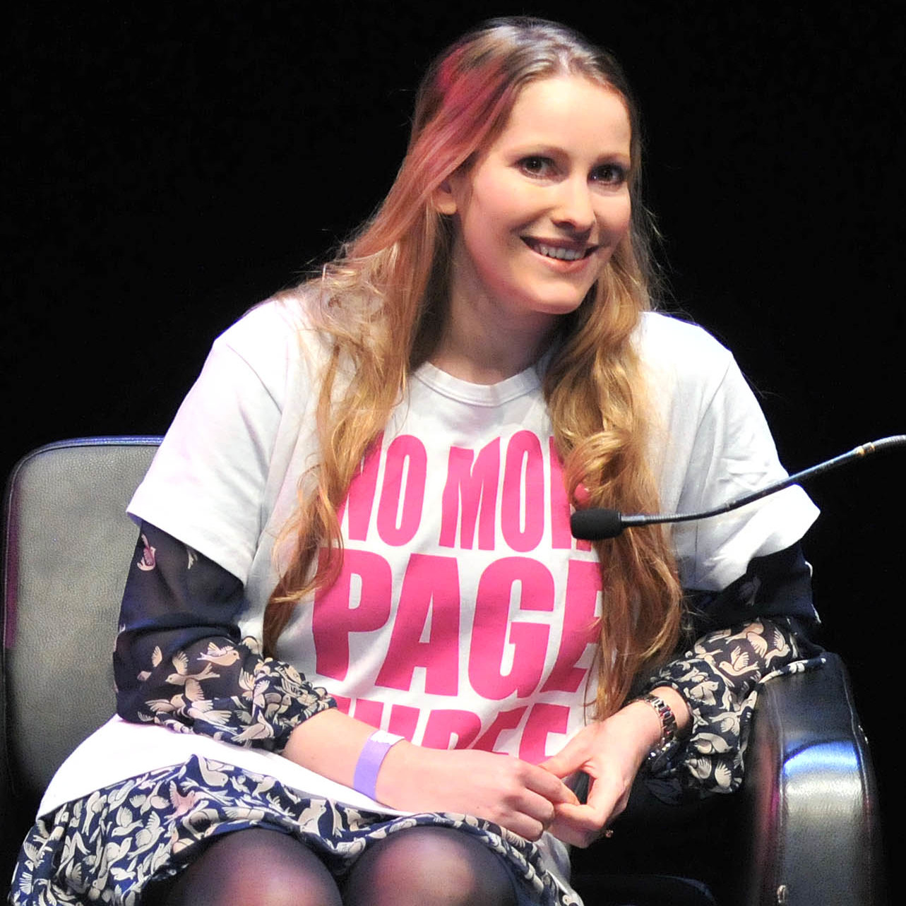 Laura Bates and Katie Price at WOW Festival 2014